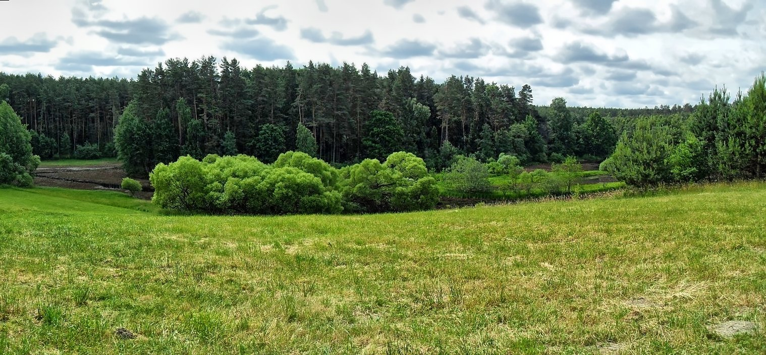 Panorama of meadows and marshes Bartlu